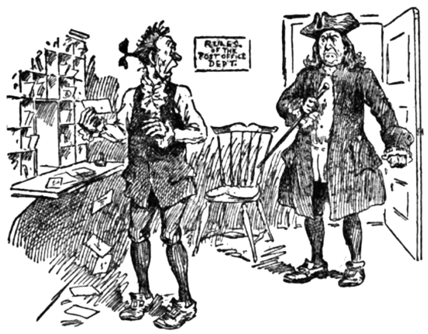 Caption beneath the image: Caught by Franklin reading postal cards. This is an anachronism: There were no postal cards when Benjamin Franklin was the Postmaster General.